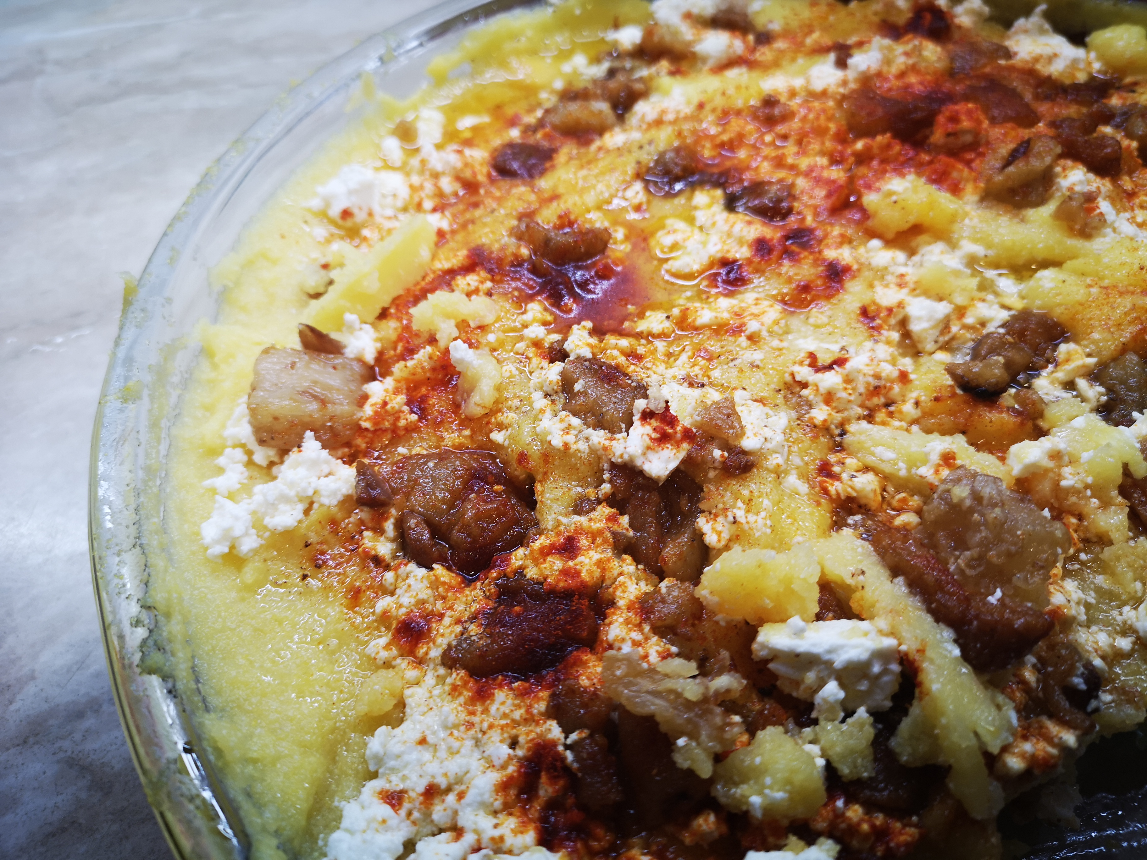 Kačamak (Cyrillic: качамак; Albanian: Kaçamaku), also known as pura (Cyrillic: пура), is a kind of maize porridge made in the Balkans. Its name is derived from the Turkish word kaçamak, meaning escapade. It is also known as bakrdan (бакрдан) in North Macedonia.